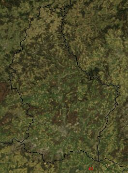 Satellite image of Luxembourg in April 2003.